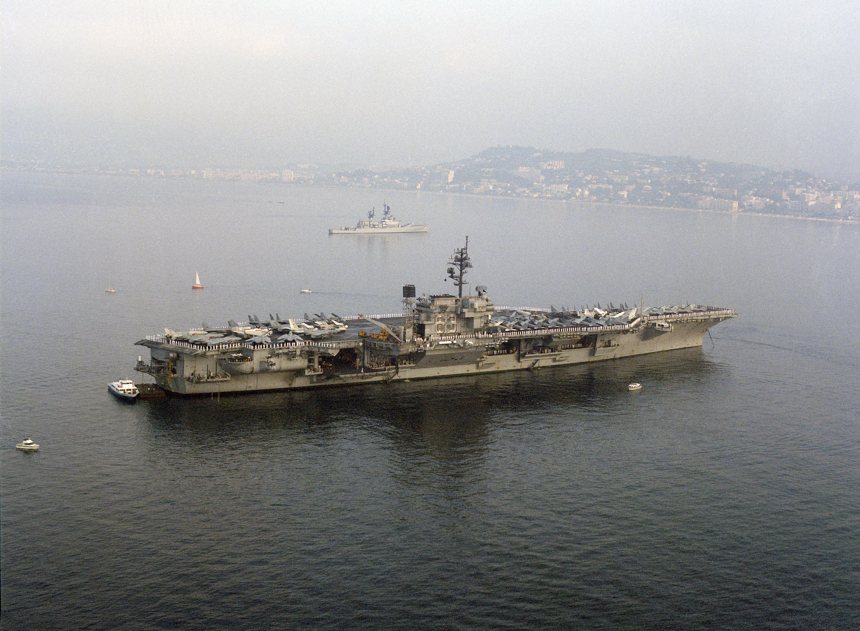 An aerial starboard quarter view of the U.S. Navy aircraft carrier USS Kitty Hawk (CV-63) anchored off Cannes, France, on 6 June 1987. The guided missile cruiser USS Josephus Daniels (CG-27) is in the background. Kitty Hawk, with assigned Carrier Air Wing 9 (CVW-9), was on her around the world cruise from 3 January to 29 June 1987.